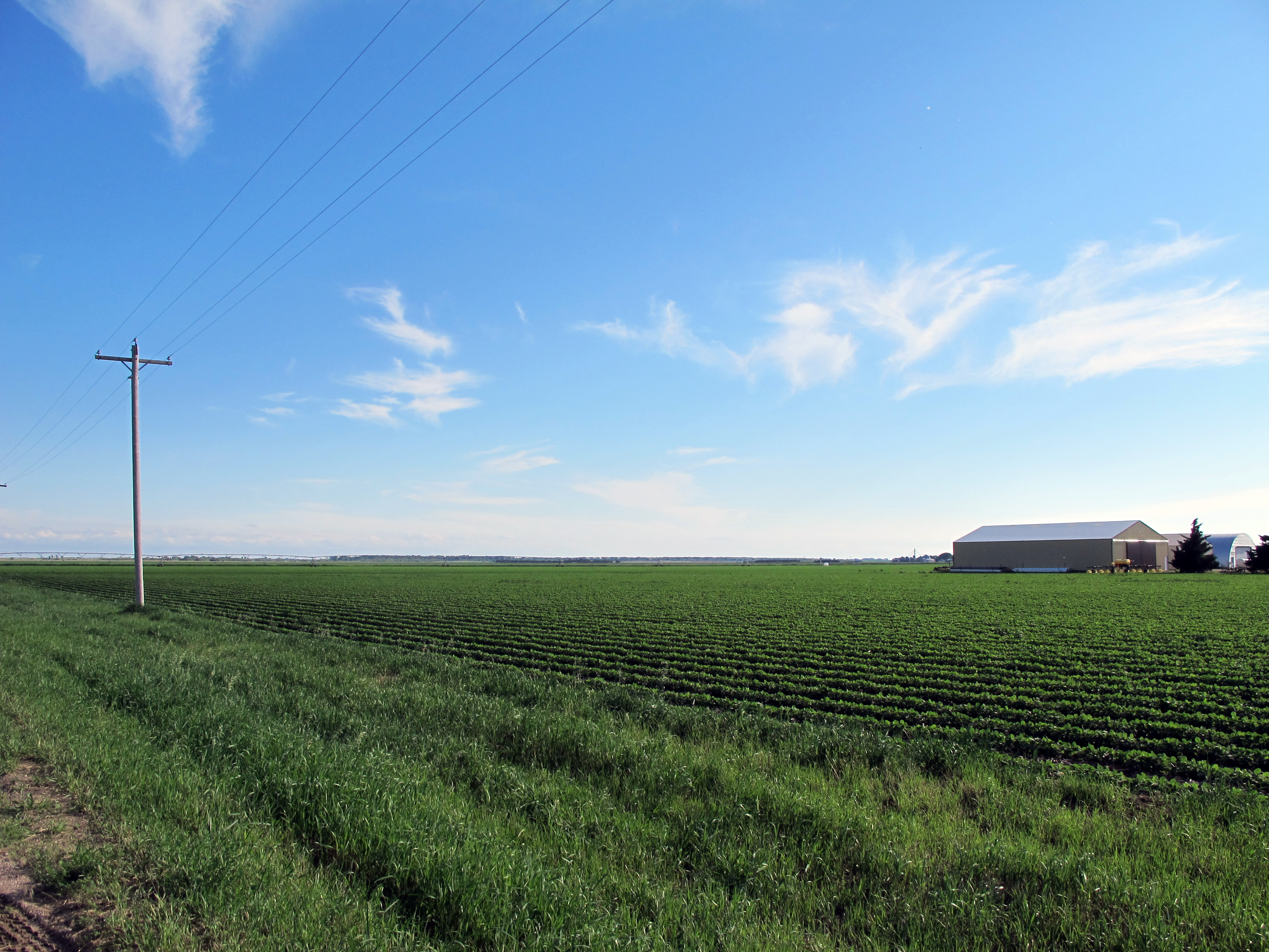 Photo of a late spring countryside scene in Kearney County, Nebraska. Photo is looking nearly southwest into a farm field, just south of Nebraska State Link L50A & 29 Road; along 29 Road (west side) in Kearney County.